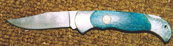 Pattern welded steel pocket knife. Looks like a Damascus steel Pocket Knife, but is not. Incorrectly labeled in the German Wikipedia.